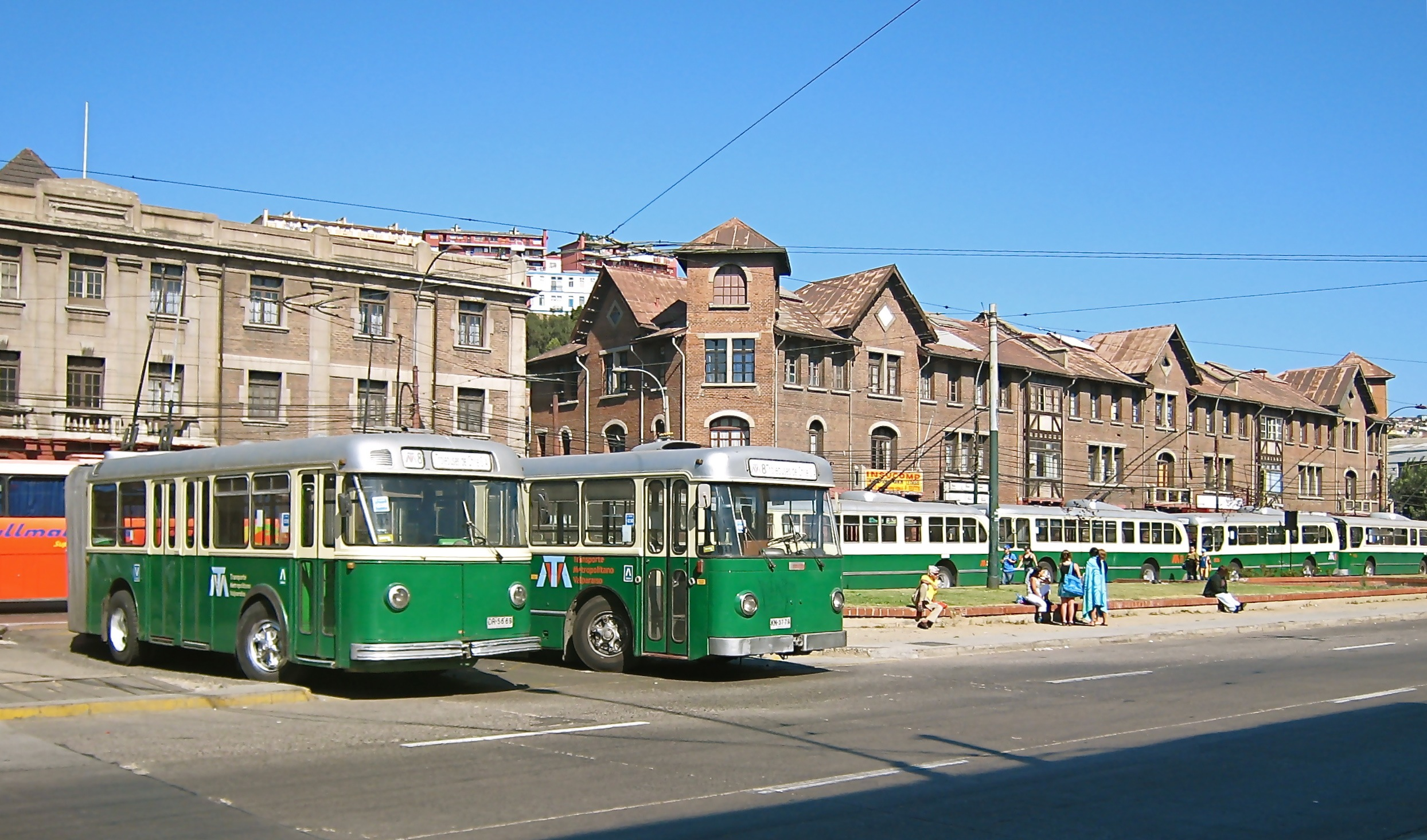 Trolleybuses in Valparaíso, Chile, at the Barón terminus. On the left are an ex-Zürich FBW-built trolleybus (No. 504; license plate DR*5669) and an ex-Geneva Berna-built trolleybus (No. 612; license plate KN*3779), and lining the street in the background are Pullman-Standard trolleybuses built in 1946-48 (the last two in this line have side windows rebuilt in the late 1980s) and still in regular service in 2020.